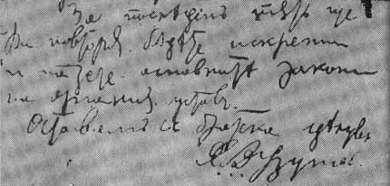 last letter of Hristo Uzunov